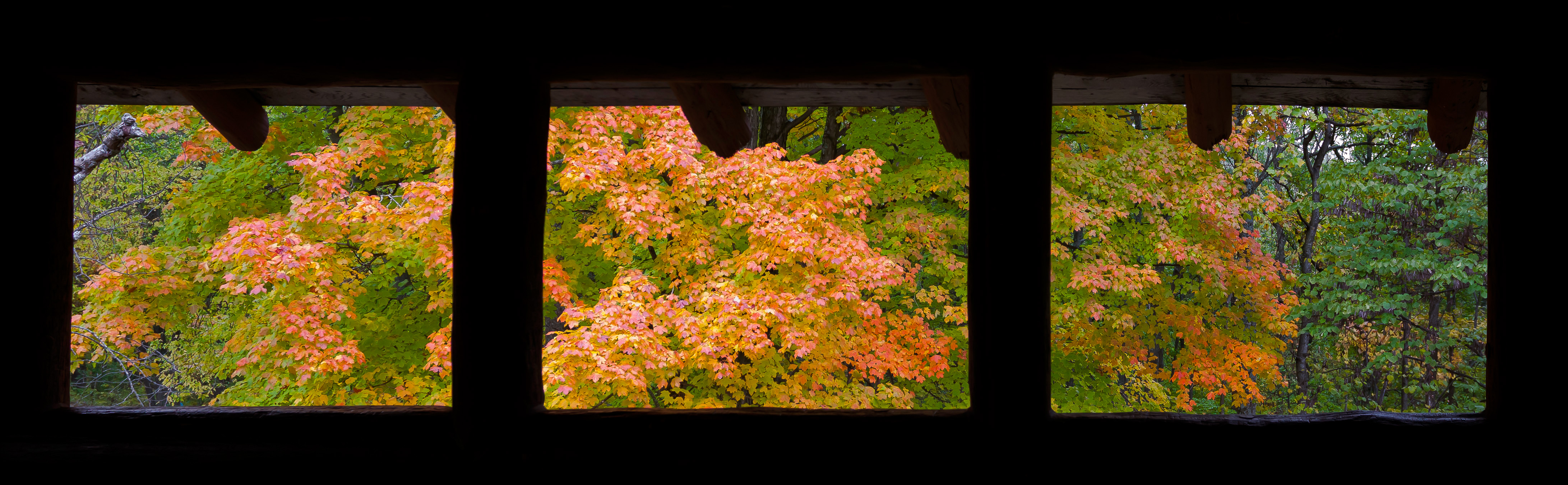 View from the observation tower, Brown County State Park, Indiana, USA